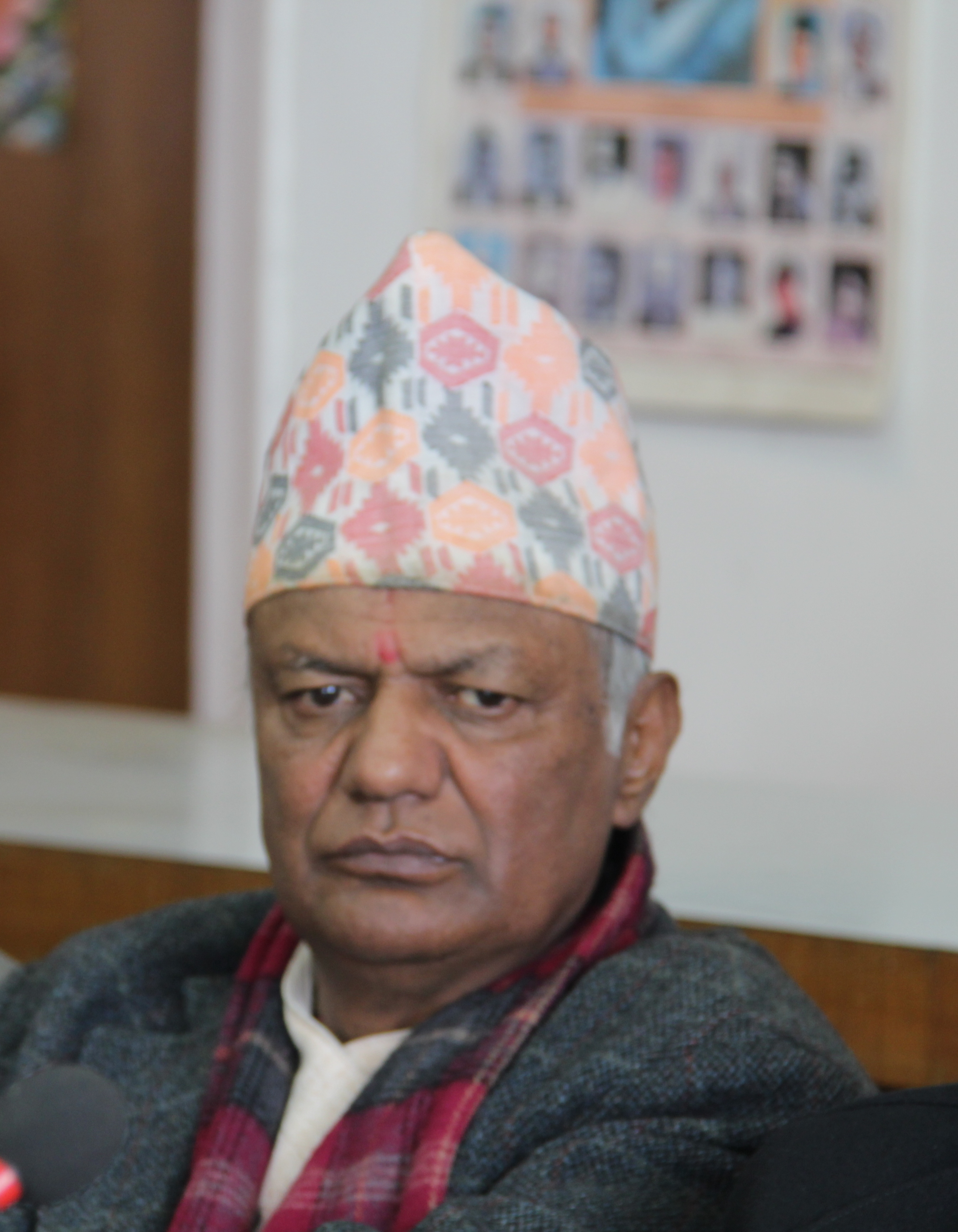 Ganga Upreti at Multilingual Poetry Conference in Kathmandu 2014